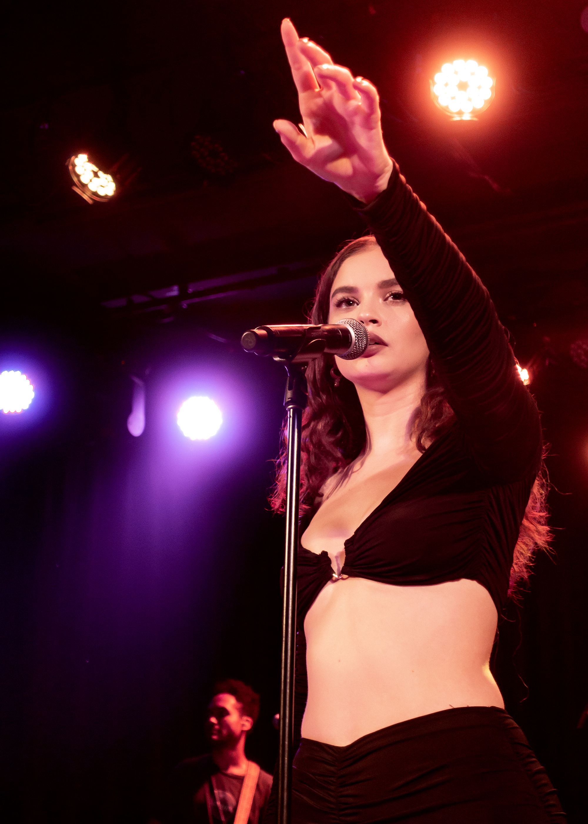 Sabrina Claudio performing live at The Roxy theatre in West Hollywood, Los Angeles, California, on Monday, August 27, 2018. I believe this was a warm-up show for her Fall 2018 U.S. tour.